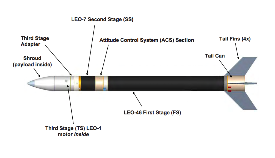 Super Strypi rocket diagram